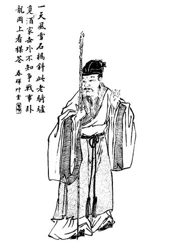 Qing Dynasty Romance of the Three Kingdoms illustration of Huang Chengyang